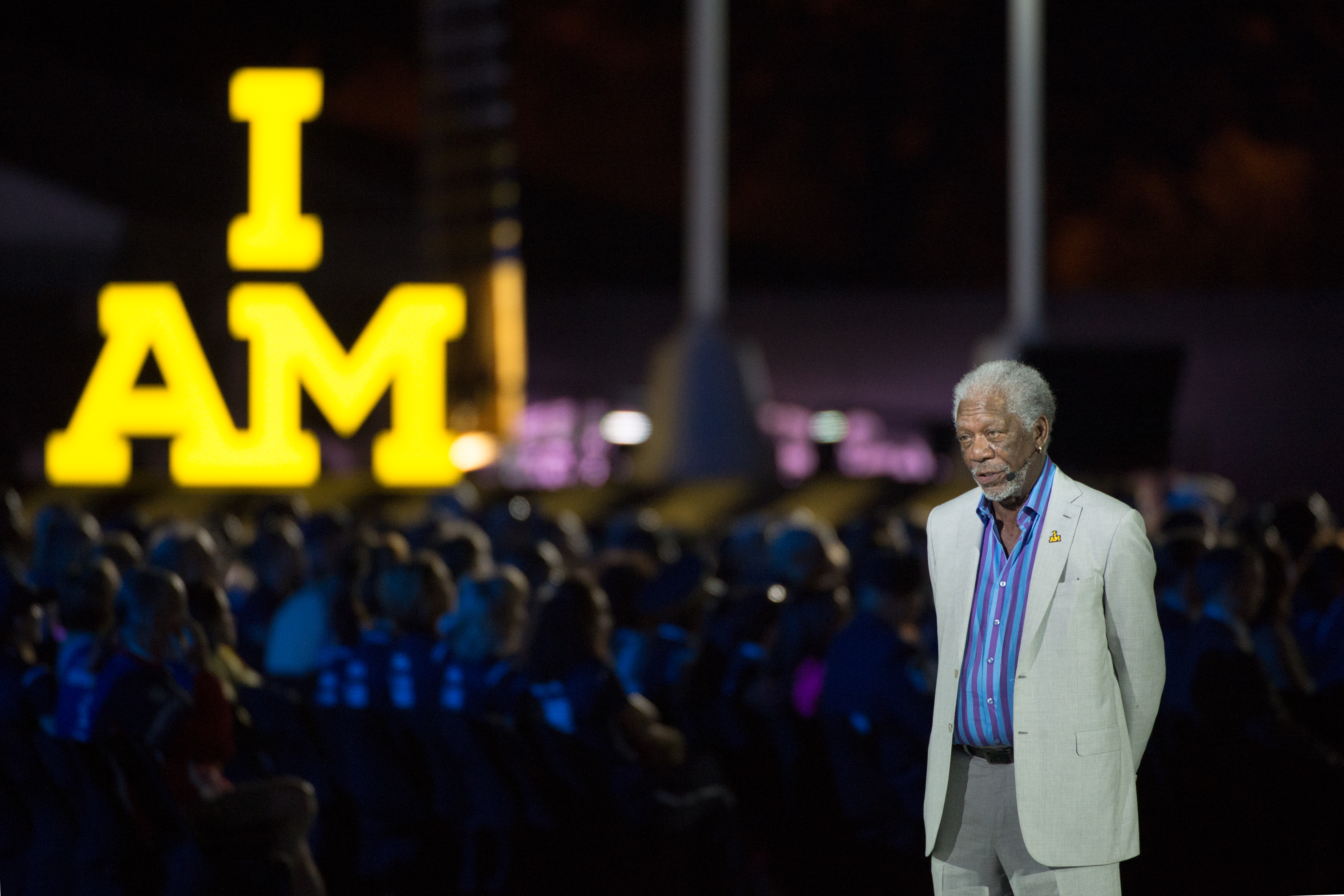 Academy Award-winning actor Morgan Freeman narrates for the opening ceremony to they 2016 Invictus games in Orlando, Fla. May 8, 2016. (DoD News photo by EJ Hersom)